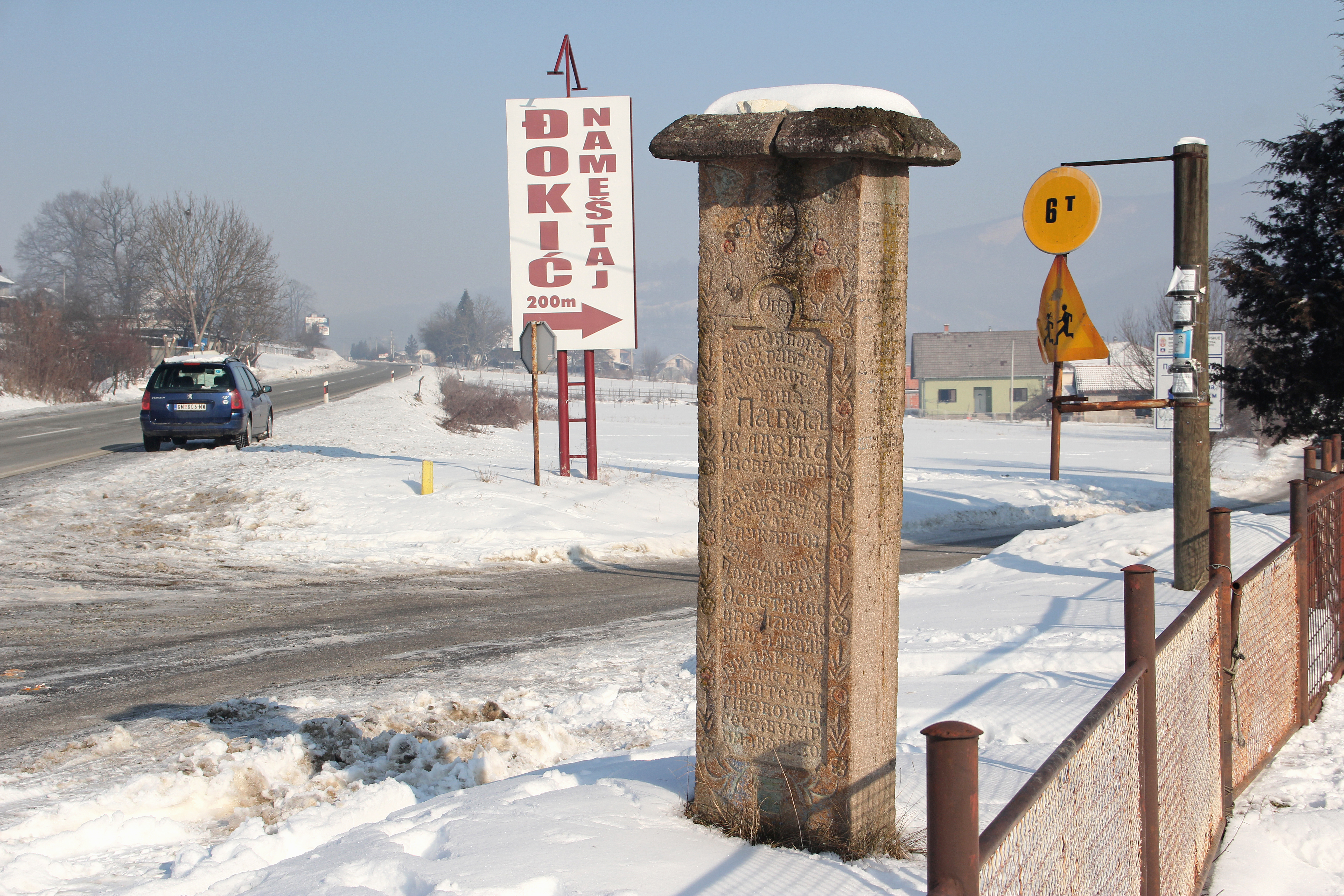 Roadside tombstone erected in memory of Pavle Z. Lazic. It is located in the village of Svrackovci (the municipality of Gornji Milanovac), Serbia.